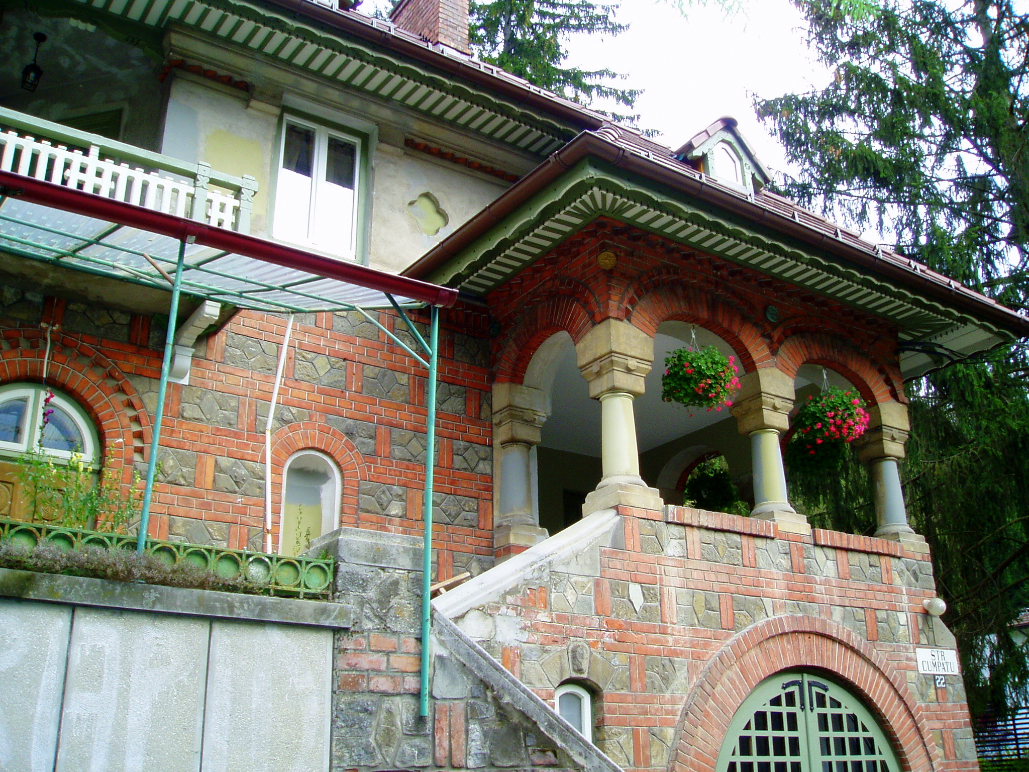 It is the Socolescu villa in Sinaia-Cumpătu, Judeţul Prahova, Romania. Built by architect Toma T. Socolescu for his wife Florica. We are the only heirs and descendants of Toma T. Socolescu (died in 1960 in Bucharest) and therefore owner of all his intellectual rights.